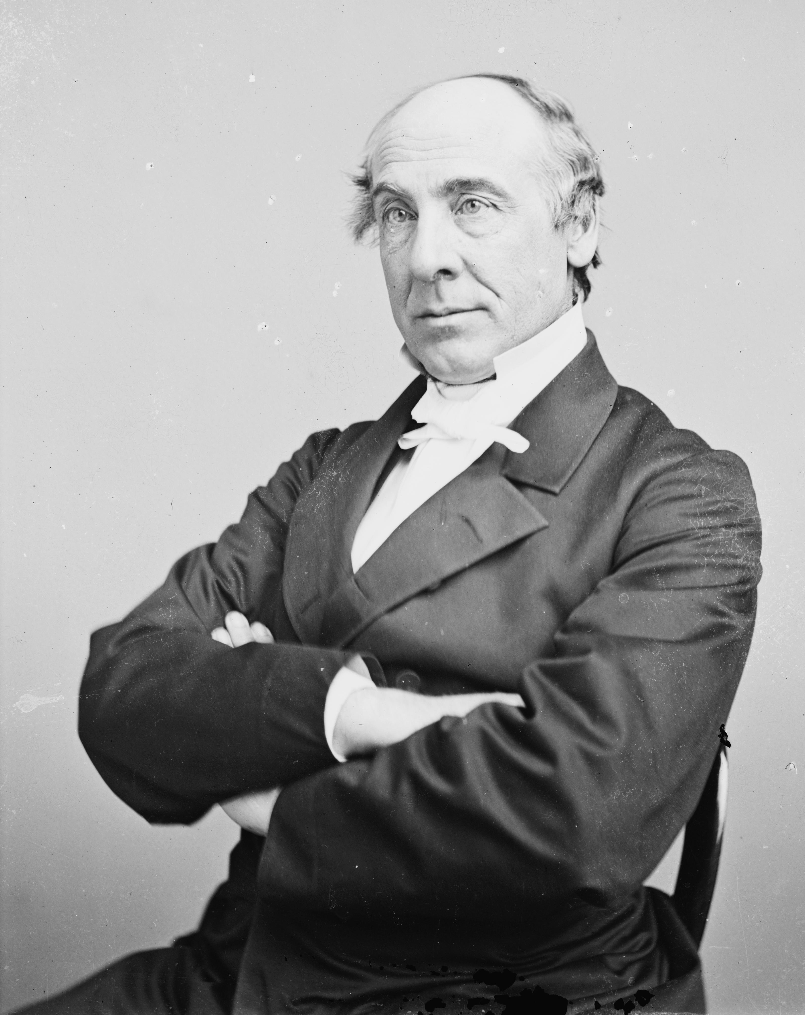 Henry Whitney Bellows ( June 11, 1814 – January 30, 1882) was American clergyman, and the planner and president of the United States Sanitary Commission, the leading soldiers' aid society, during the American Civil War. Under his leadership, the USSC became the major source of spiritual and physical aid for wounded Union soldiers. (This summary was created using Commons SumItUp)